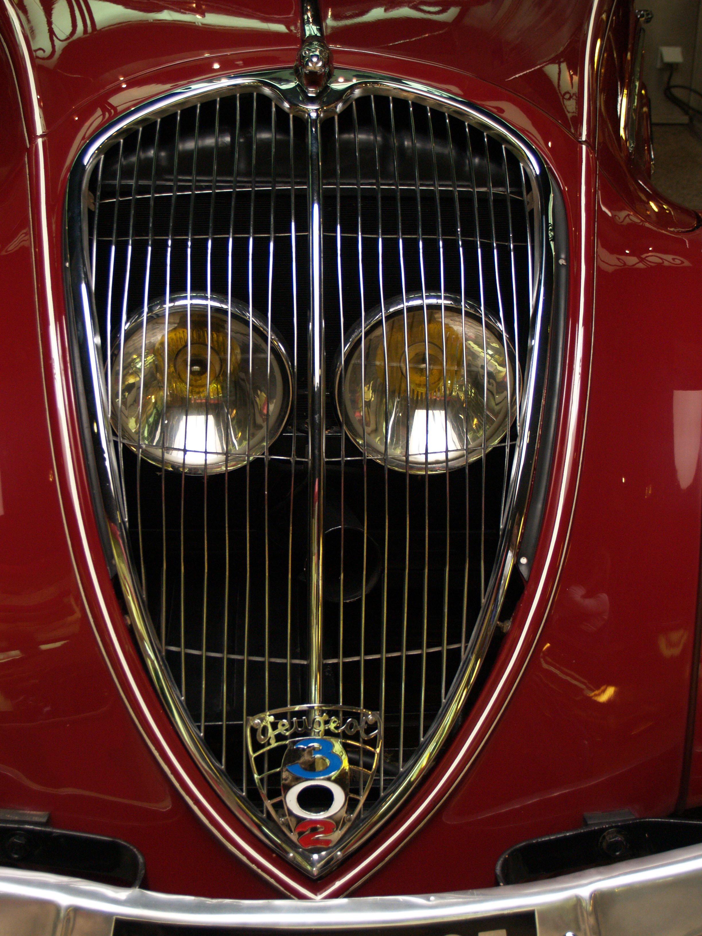 Photographed at the Musée de l'aventure Peugeot